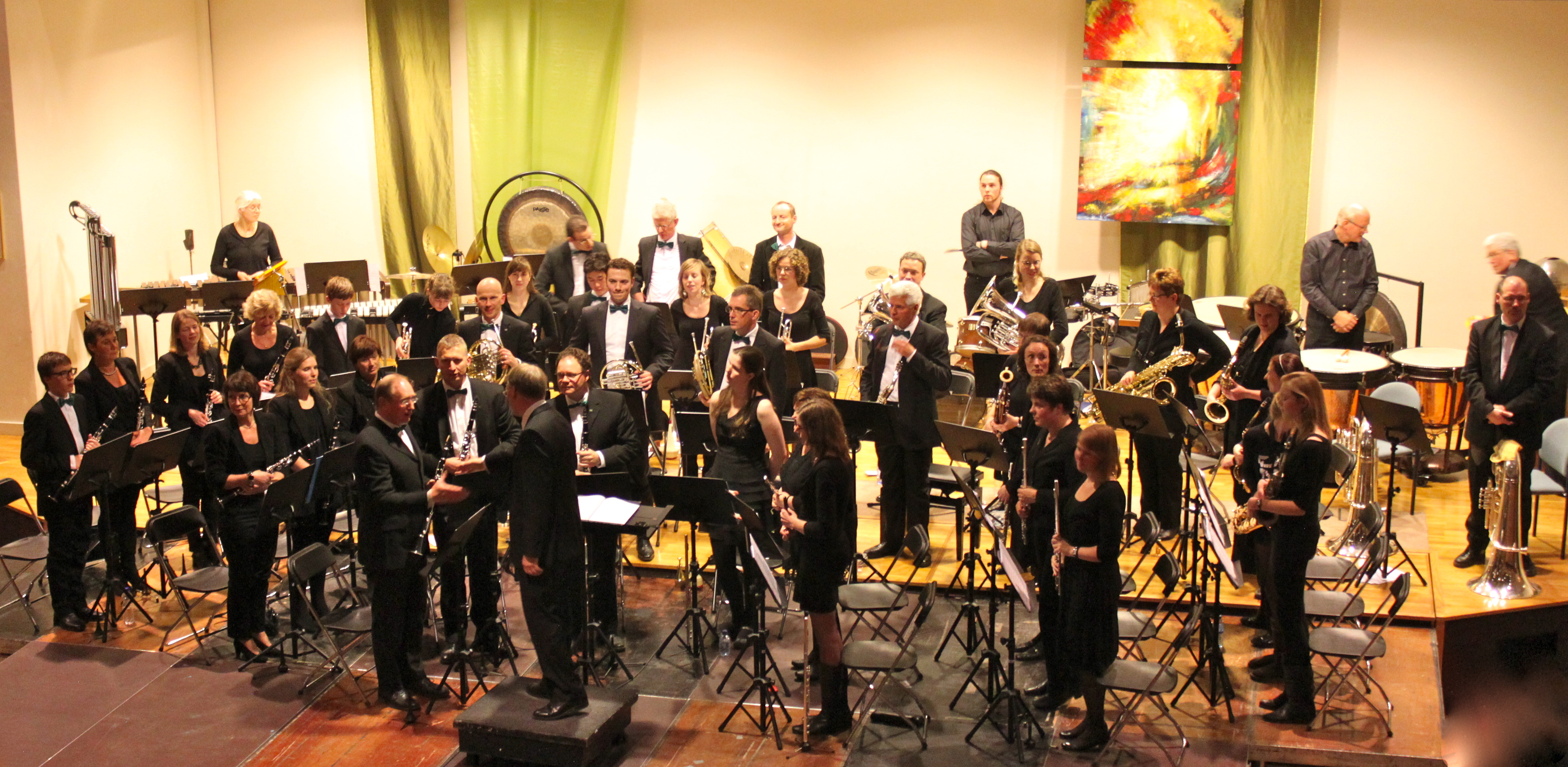 Elk jaar vindt in januari het Oranjeconcert plaats, een uitvoering waar het Koninklijk Zeister Harmonie Muziekgezelschap (KZHM) hard naartoe werkt. In 2012 speelde het orkest in de Oosterkerk te Zeist en werd onder andere de muziek van Miss Saigon ten uitvoer gebracht.